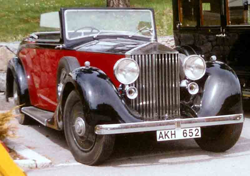 Rolls-Royce 25/30 HP Drophead Coupé 1937